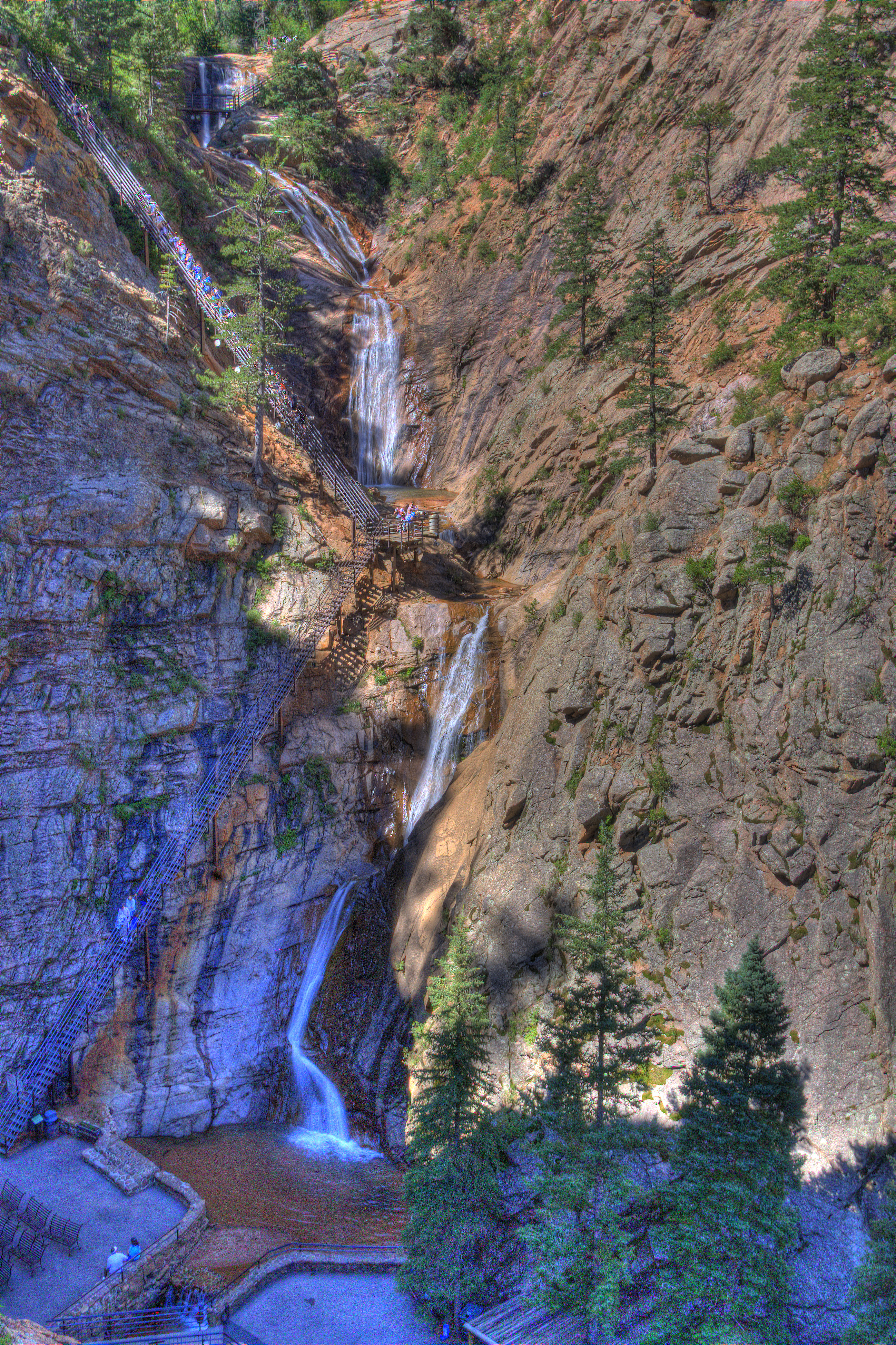 All 240 steps as seen from another platform that took 180 steps. I took this with the Nikon D80 and an 8x ND filter attached to the 18-200 lens. HDR shot.